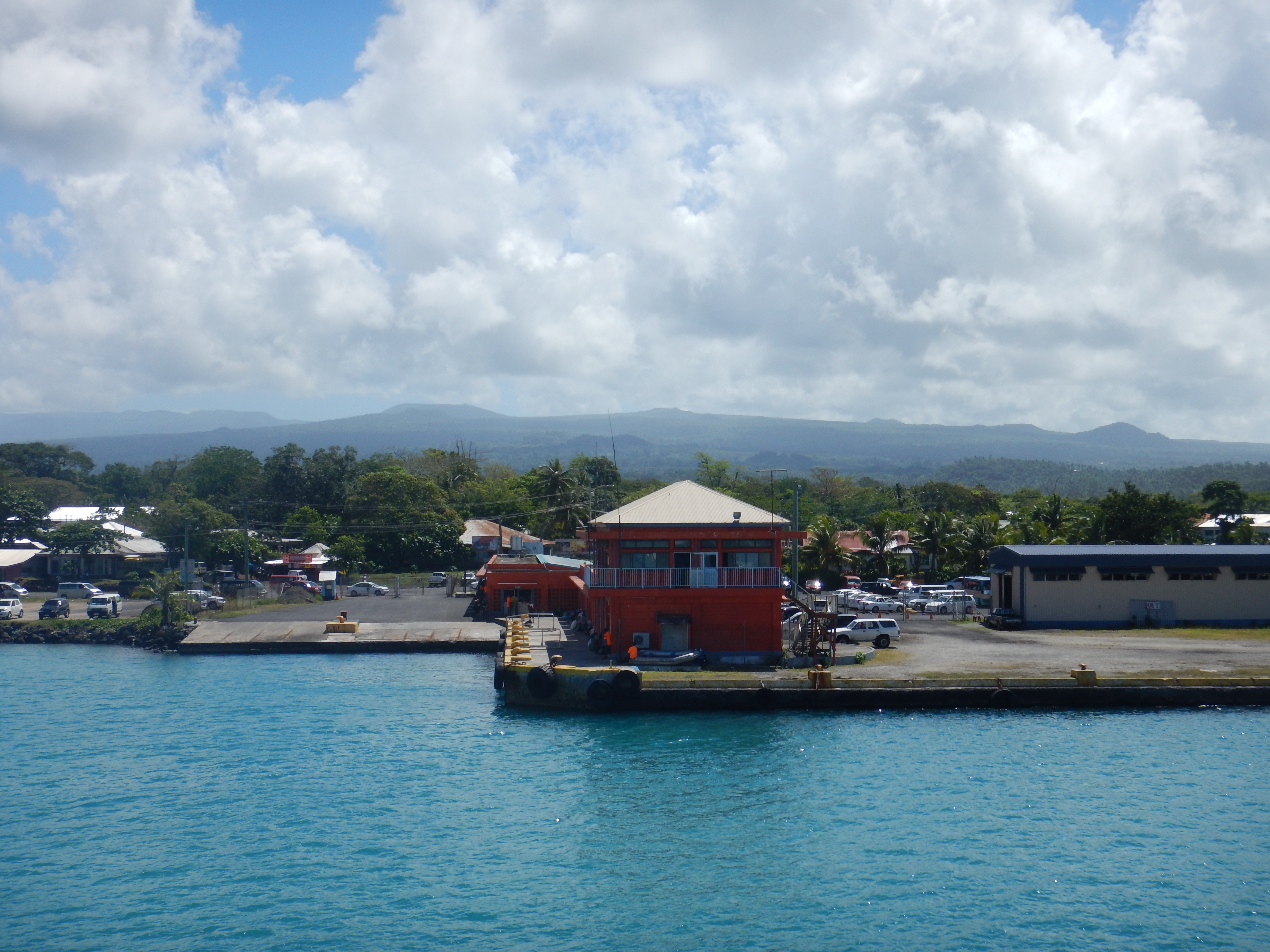 The wharf and ferry terminal in Salelologa, Savai'i, Samoa, in August of 2016.